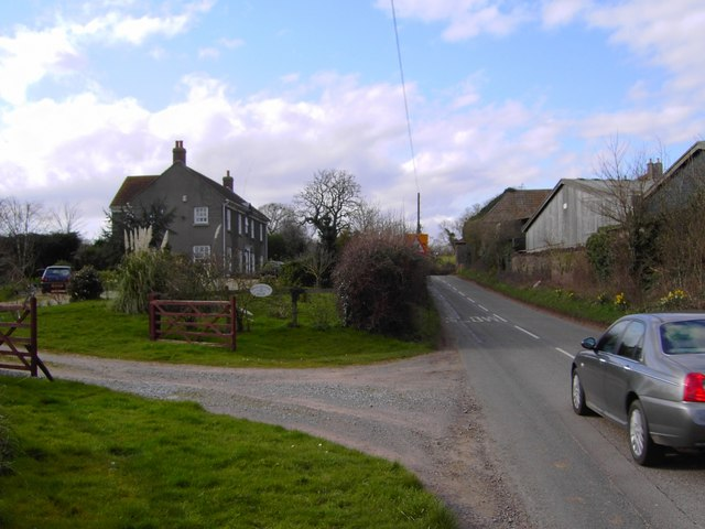 Challacombe House, Perrinpit Road, Frampton Cotterel Not obviously associated with the farm opposite, it might once have been the farmhouse.